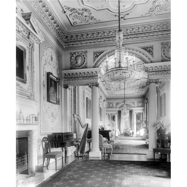 Interior of Gilling Castle (now preparatory school for Ampleforth College) at Gilling East, North Yorkshire, England. Published in Country Life magazine, vol XXIV, p.416, image no. 534805. Showing 18th century interior of east end of gallery.